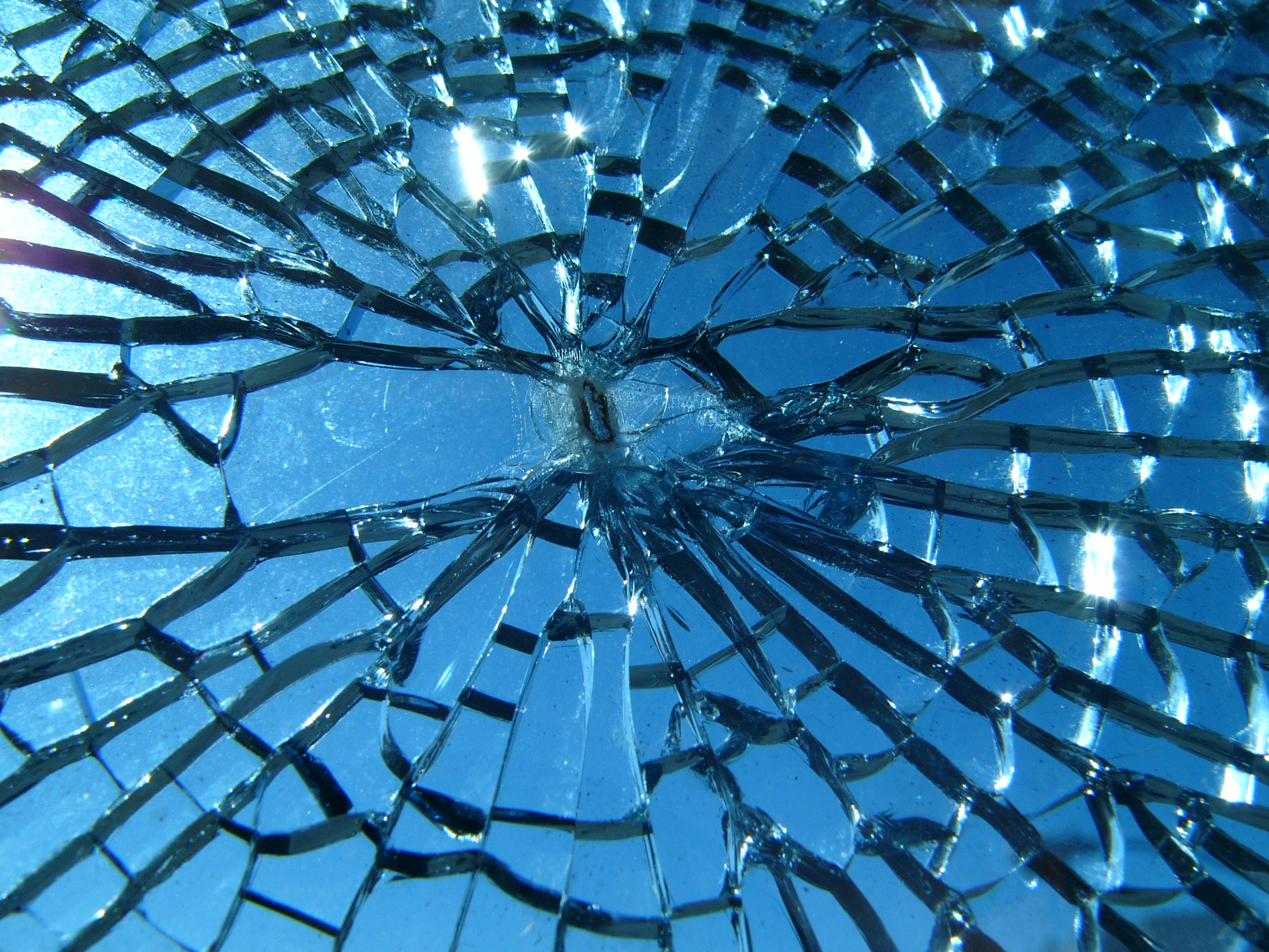 Broken glass